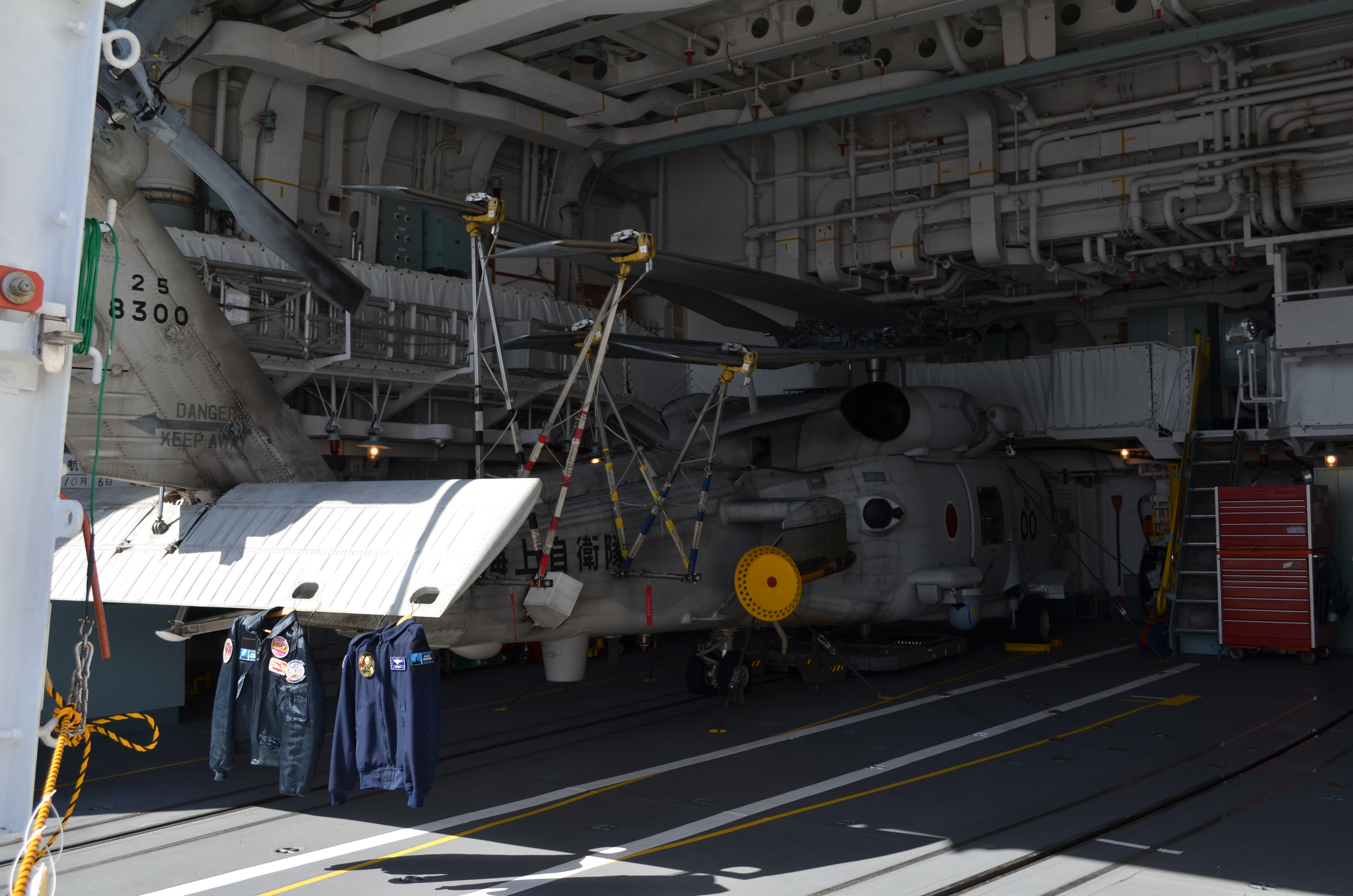 Photographs taken during day 5 of the Royal Australian Navy International Fleet Review 2013. One of the Seahawk helicopters assigned to the Japanese destroyer Makinami, in the ship's hangar